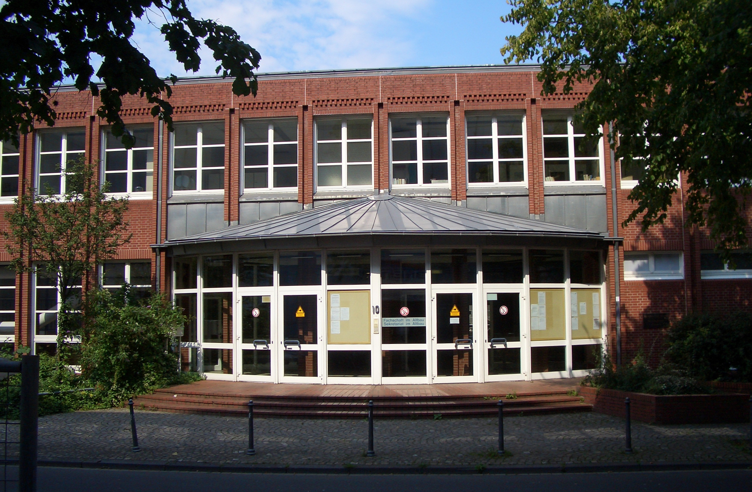 Photo of a building of the department of anatomy of University of Bonn.